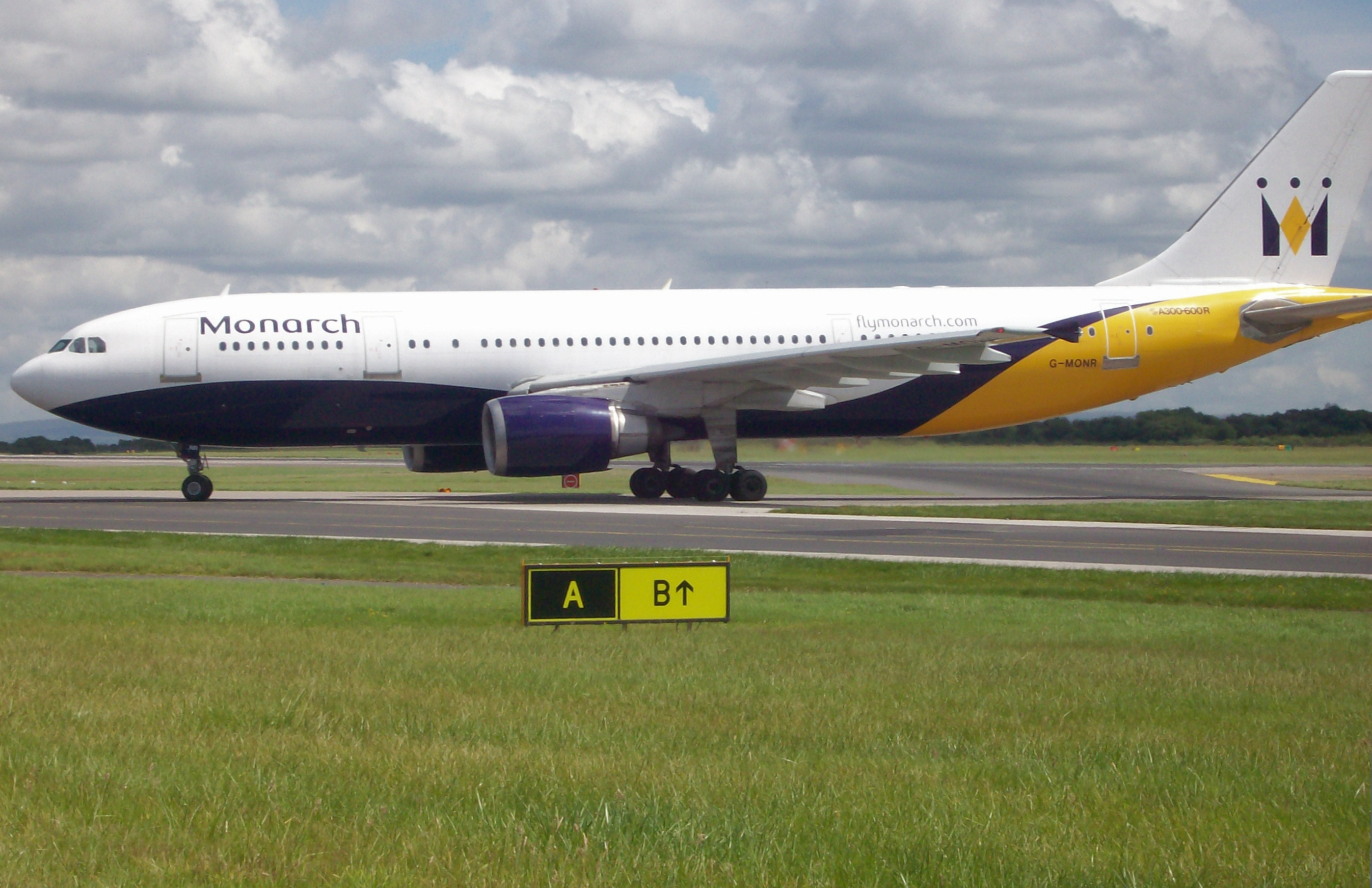 I Took This Photo On 28/7/07